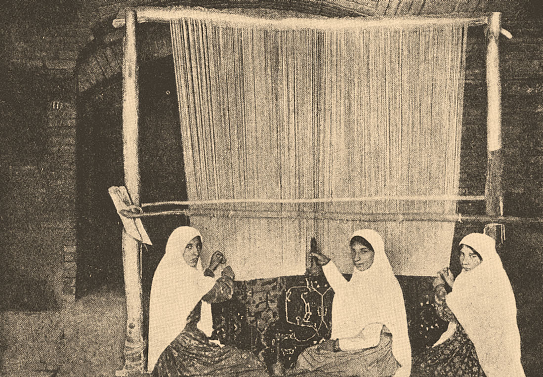 Illustration from Brockhaus and Efron Jewish Encyclopedia (1906—1913)